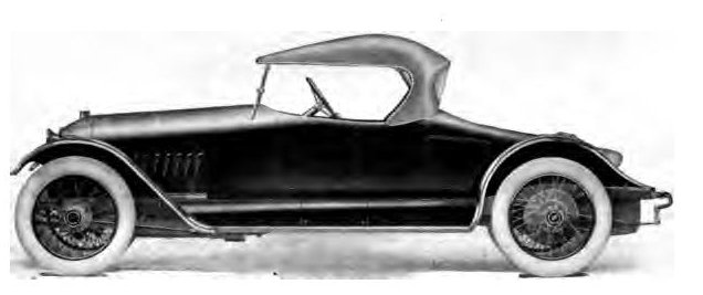 Image is of a 1916 Premier Automobile. It comes from the Automobile Year Book (1916) published by the Automobile department of McClure's magazine, The McClure Publications , inc. The scanned book is part of the Internet Archive collection. The notes at this site describe the source as: Book digitized by Google from the library of the University of Michigan and uploaded to the Internet Archive by user tpb.